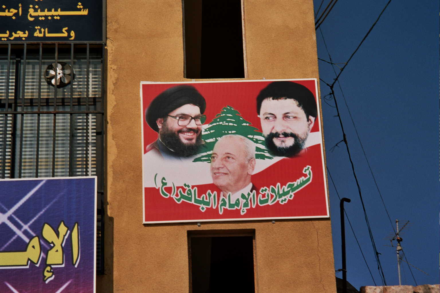 a bit different than the hariri propoganda in beirut. this poster shows mullah nasrallah in the upper left. (i don't recognize the others). the photo was taken in tyre, in southern lebanon.